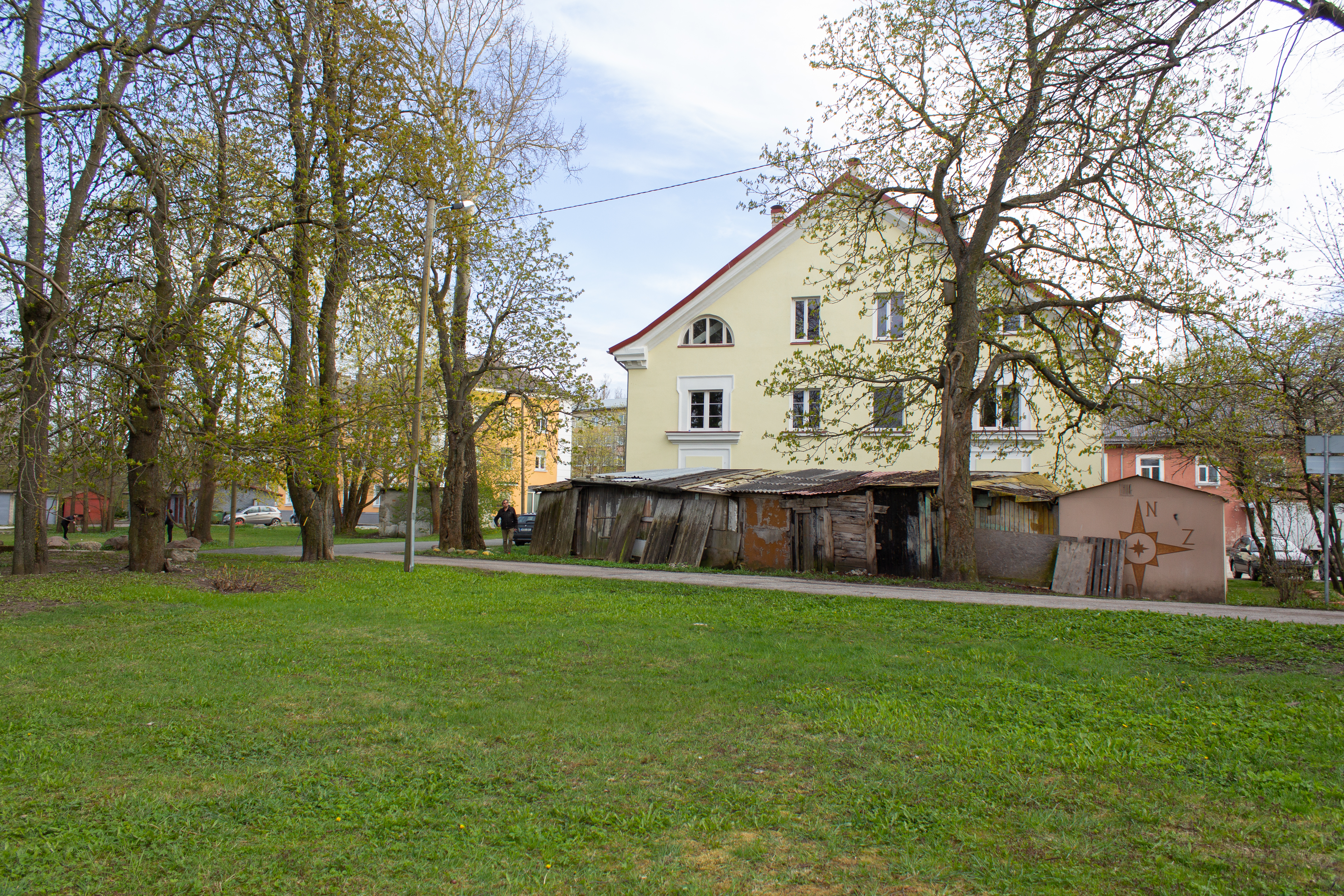 Hundipea Street in Tallinn (2020-05-06)